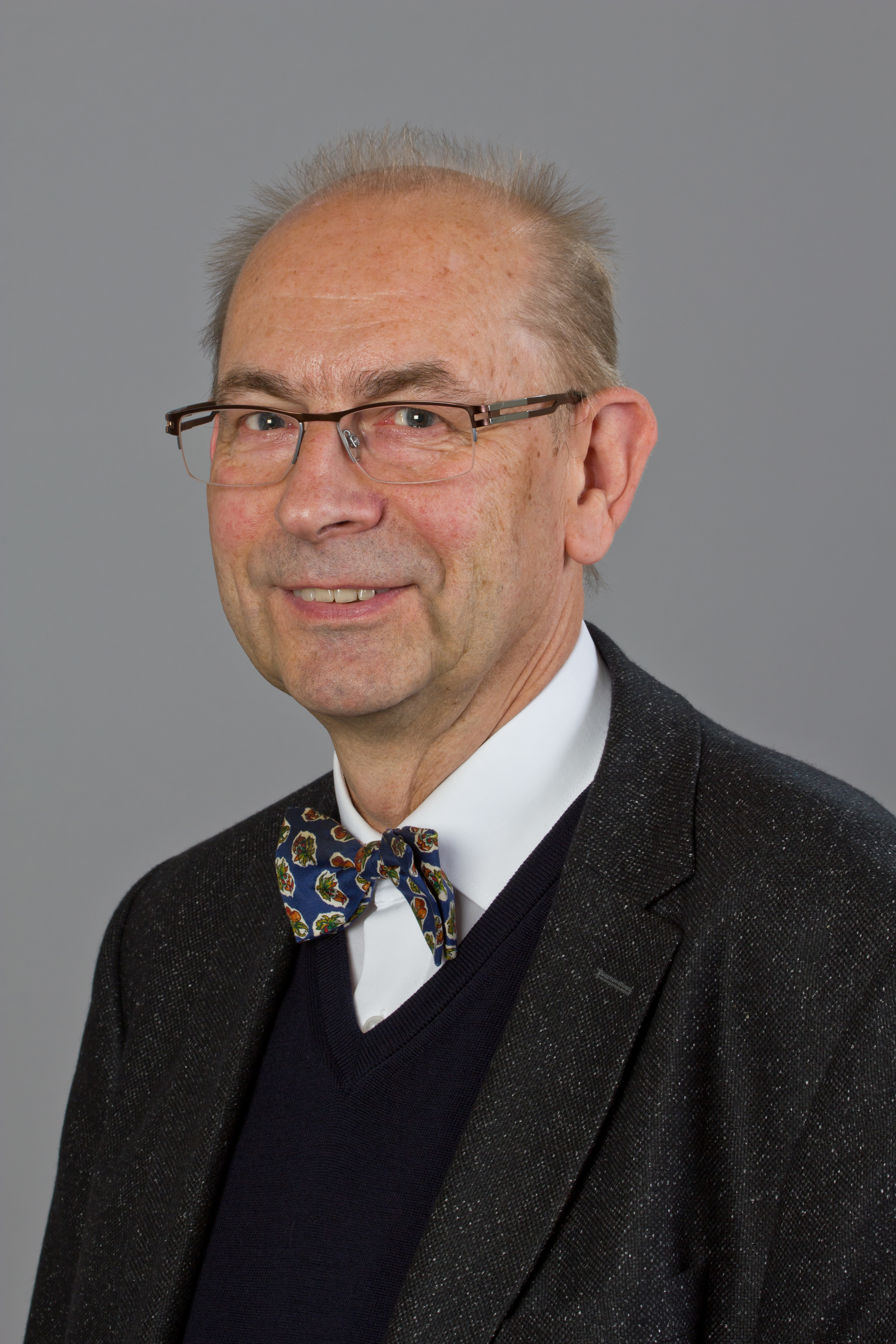 Karlheinz Nolte, politician from Germany, member of Abgeordnetenhaus of Berlin (as of 2013)